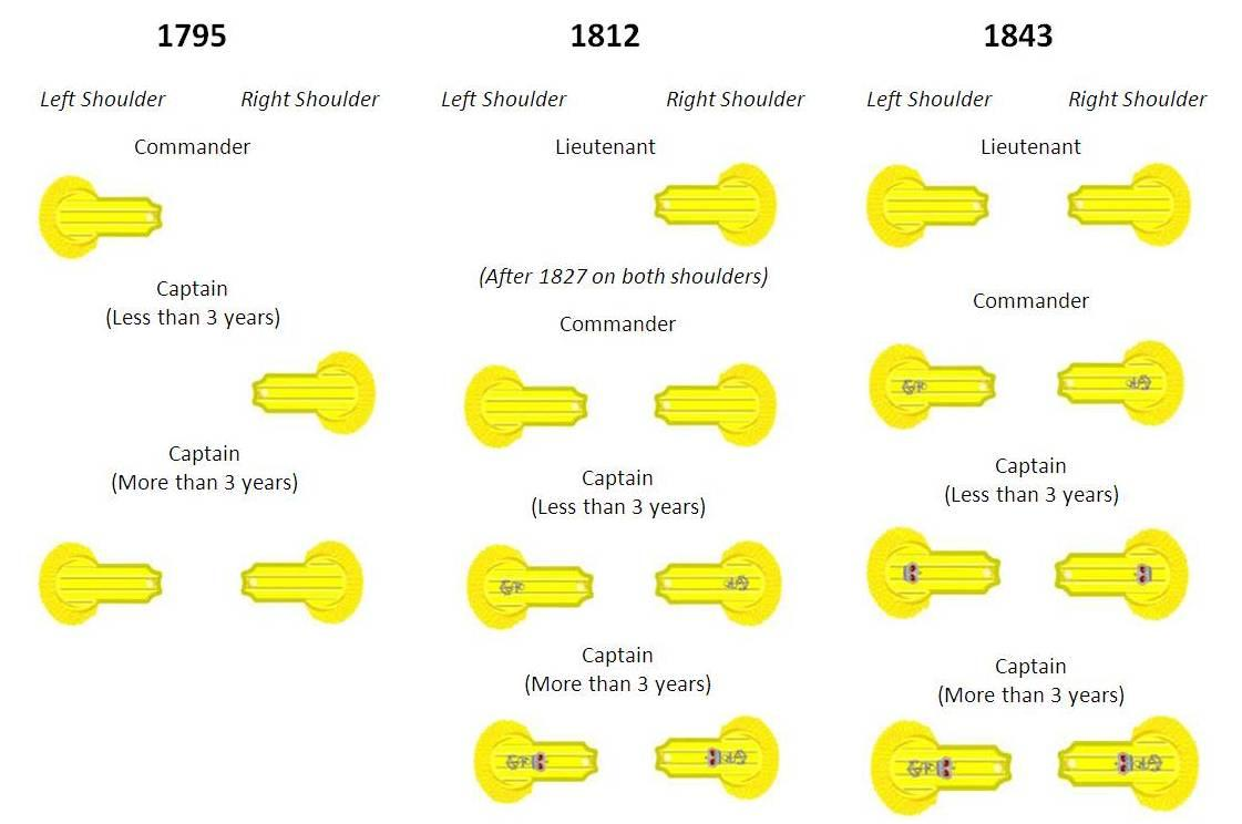 Royal Navy Shoulder Boards. Drawn in Microsoft PowerPoint.